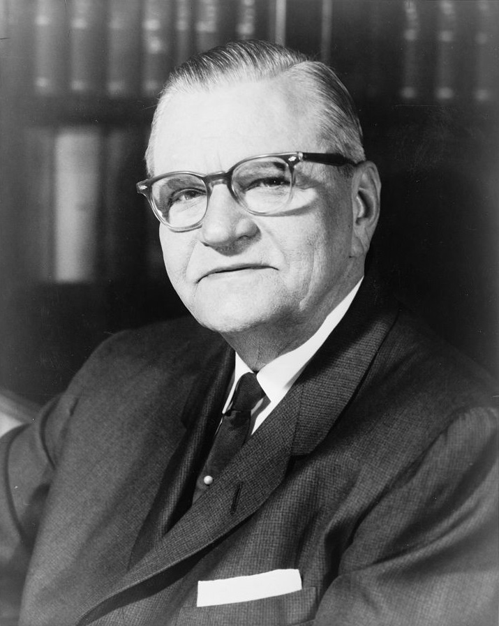 "Clifford Davis, representative from Tennessee's 9th District, head-and-shoulders portrait" -LOC text This image is available from the United States Library of Congress's Prints and Photographs division under the digital ID cph.3c36479.This tag does not indicate the copyright status of the attached work. A normal copyright tag is still required. See Commons:Licensing for more information.